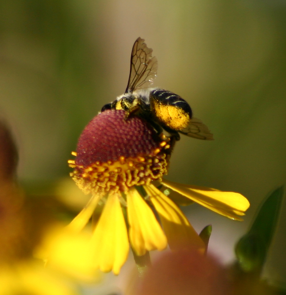 Megachilid bee, showing scopa, at Wee Tee Lake, Andrews, South Carolina Image copyleft: Image taken by me, released under GFDL, Pollinator 06:20, 24 December 2005 (UTC)